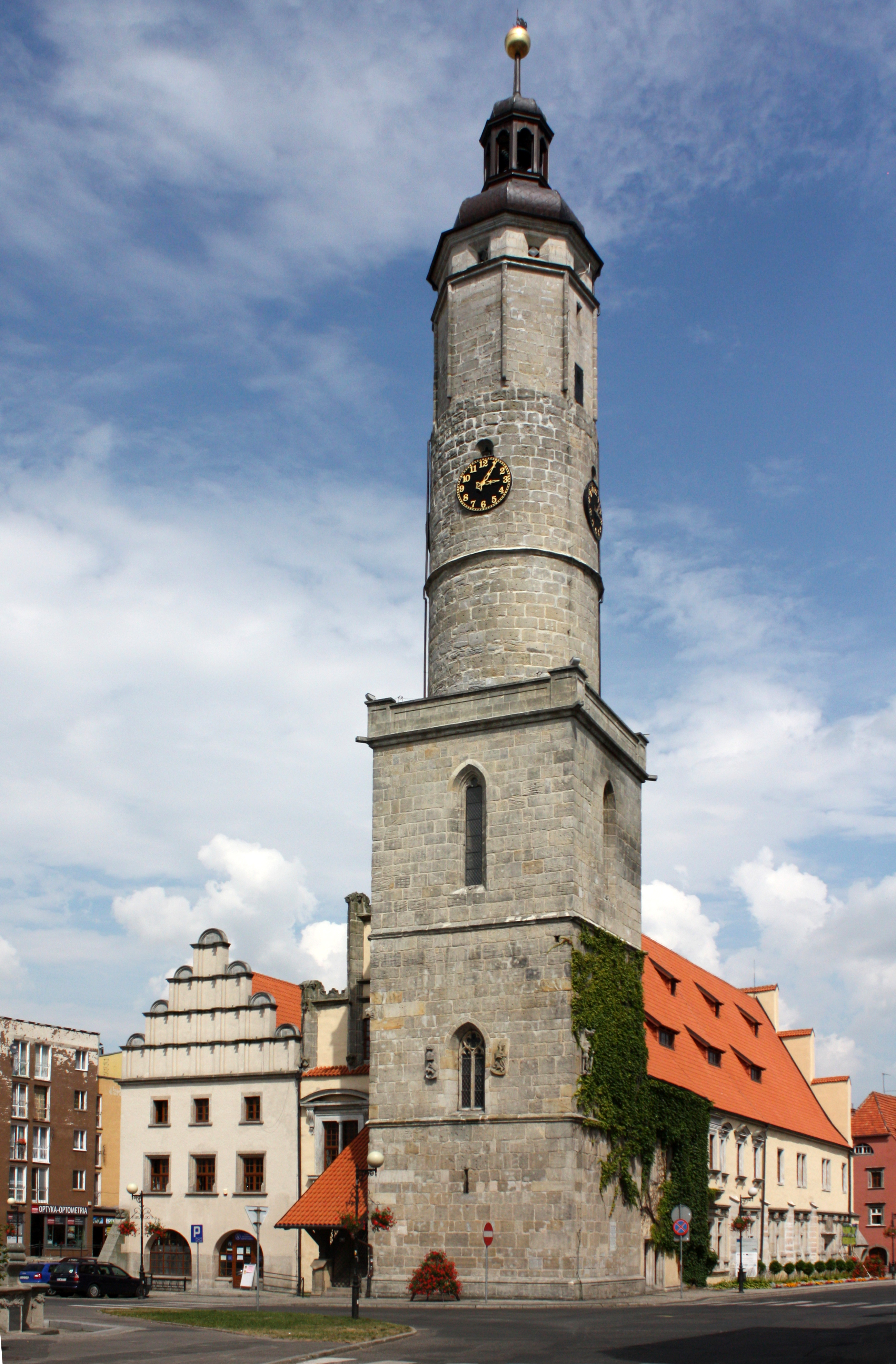 This photo of Lower Silesian Voivodeship was taken during Wikiexpedition 2013 set up by Wikimedia Polska Association. You can see all photographs in category Wikiekspedycja 2013. English | Polski | +/−